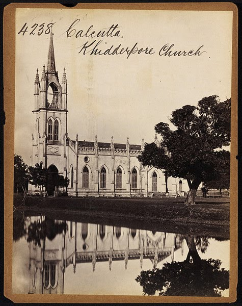 Khidderpore Church, Calcutta